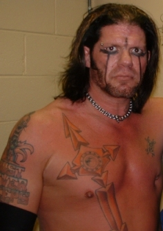 Raven in Belleville, Michigan. December 12, 2004.